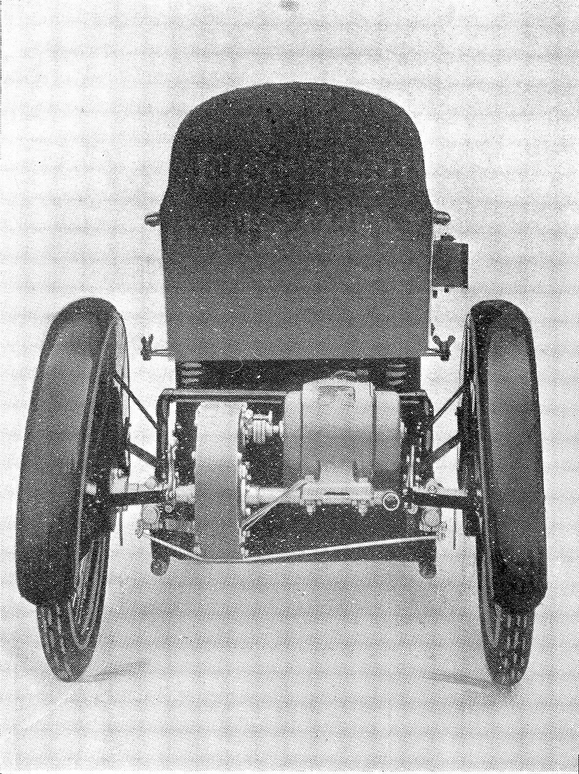 The Harding Electrically propelled invalid chair. From a trade Catalogue loaned by Messrs Harding, Invalid Carriage Makers, circa 1930. Wellcome Images Keywords: invalid chairs